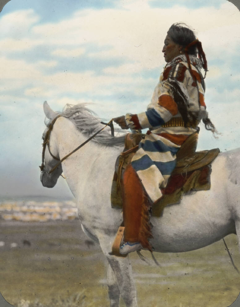 Author/Creator: McClintock, Walter, 1870-1949. Blazer, Charlotte Pinkerton. Date: undated Part of: Walter McClintock papers, 1874-1946. Physical Description: 1 lantern slide hand col. 8 x 10 cm. Folder or box number: Lantern slides box 1 Subjects: Indians of North America. Siksika Indians. Montana. Genre/Form: Lantern slides Cite as: Yale Collection of Western Americana, Beinecke Rare Book and Manuscript Library Repository: Beinecke Rare Book and Manuscript Library, Yale University Bibliographic Record Number: 2008339 Call Number: WA MSS S-1175 View our Record: Permalink